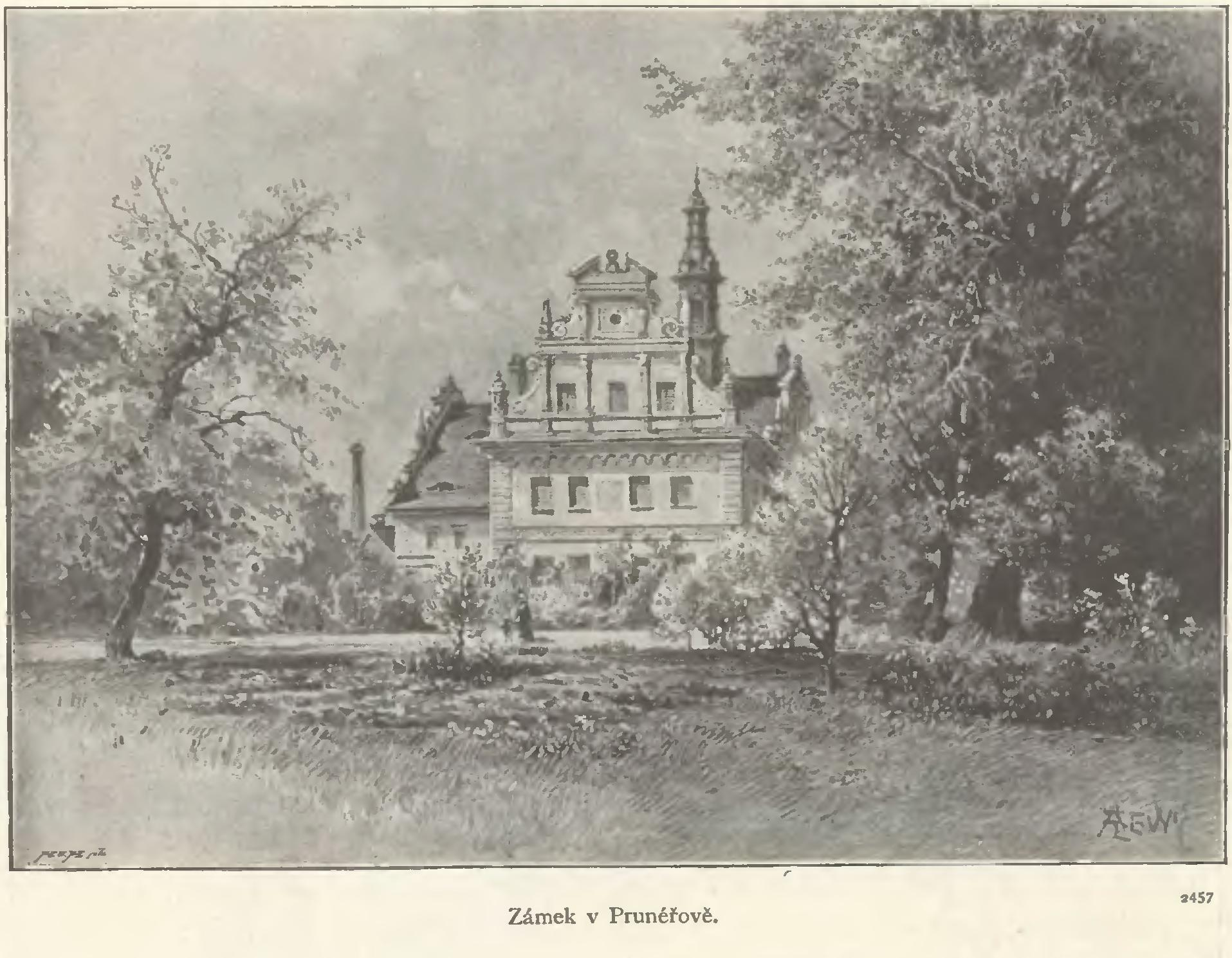 Former castle in Prunéřov (German: Brunnersdorf) in the present-day Czech Republic. The castle was demolished in 1982 to make space a for brown coal mine.